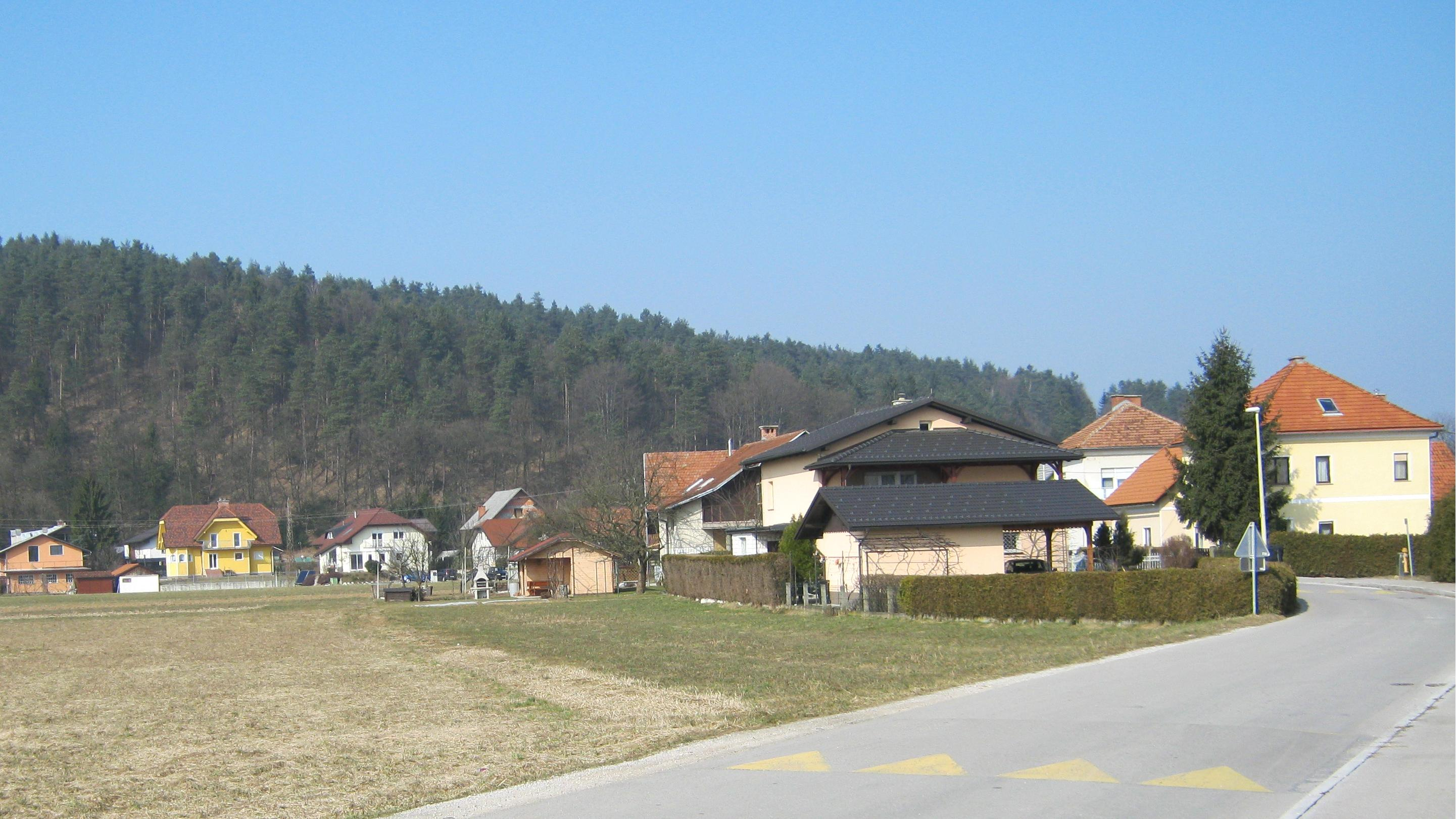 Western Podgorica (suburb of Ljubljana).